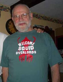 Doctor Oliver Sacks.